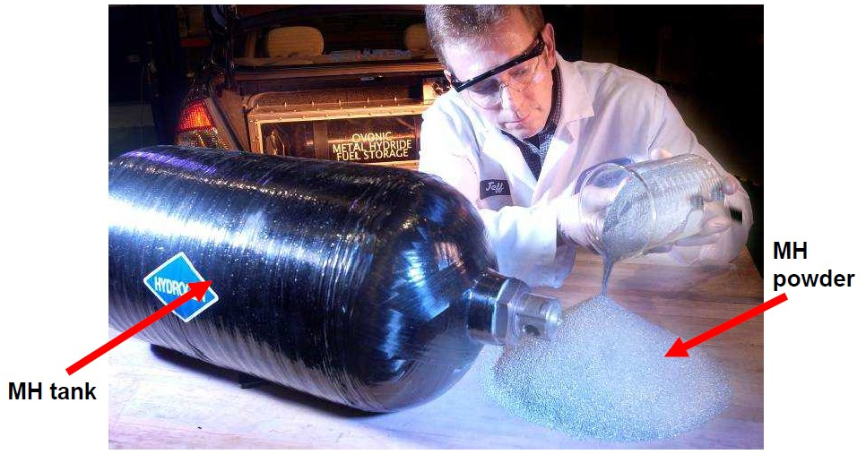 Metal hydride for hydrogen storage from Ovonic Hydrogen Systems